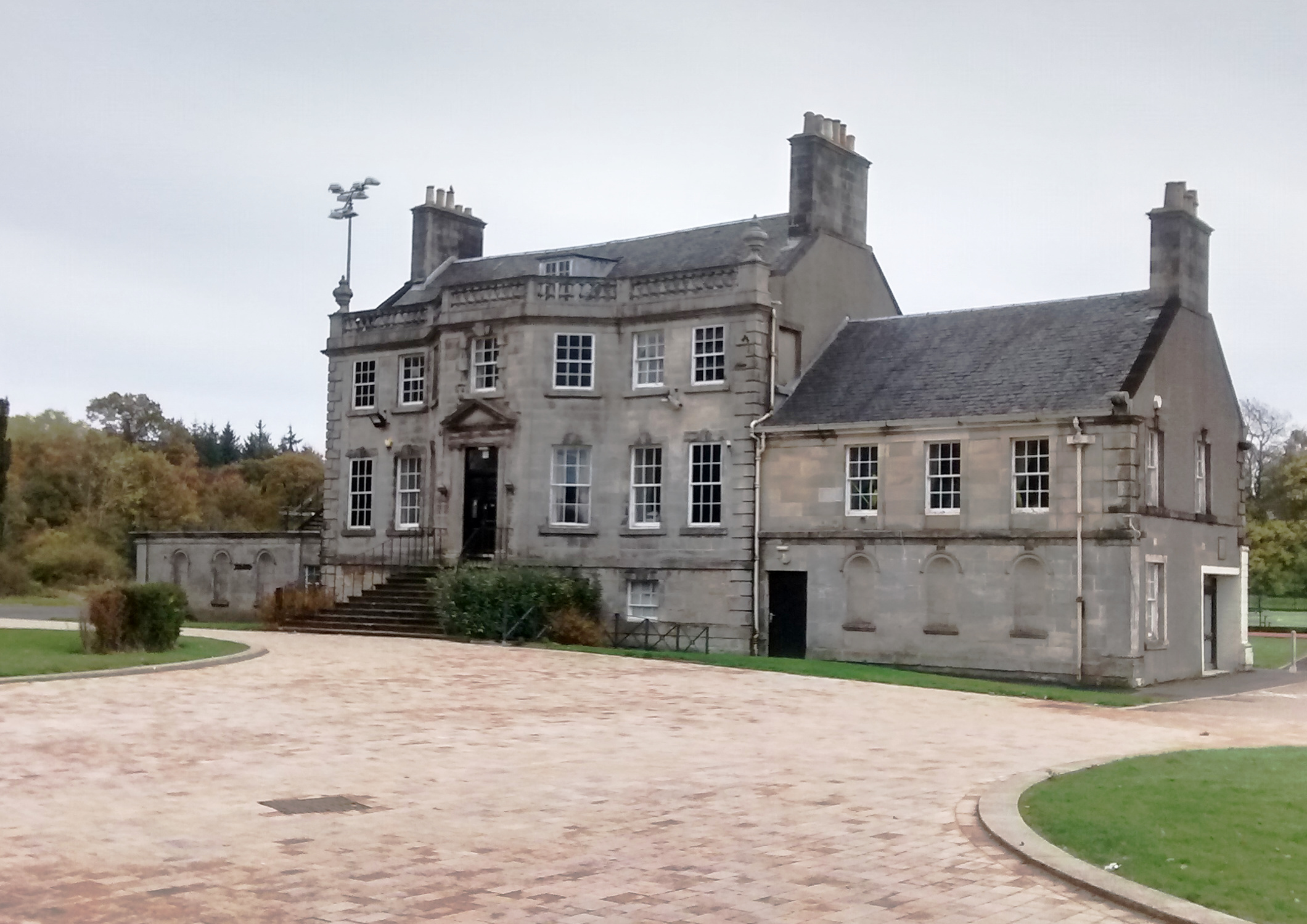 Capelrig House, Newton Mearns, now in the grounds of Eastwood High School. Originally 18th century building, category A listed in 1971 (LB18523)